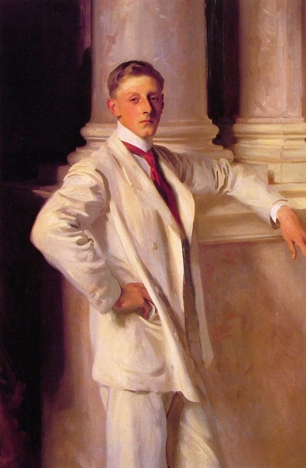 Arthur Ramsay, 14th Earl of Dalhousie (1878-1928)